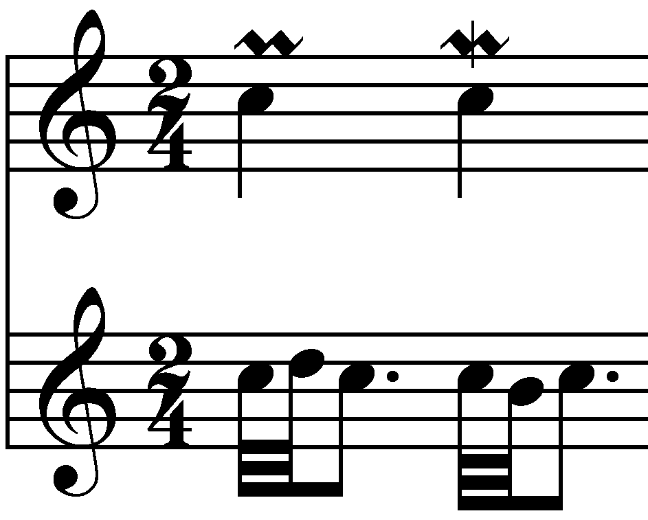 Upper and lower simple mordents